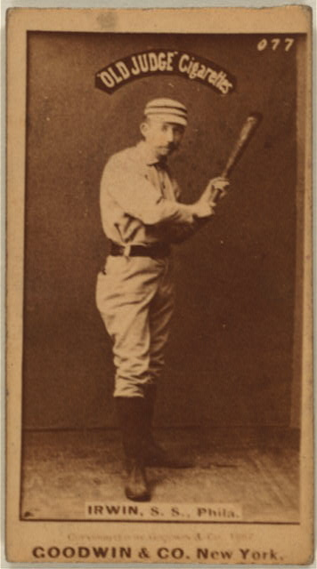 Arthur Irwin, Philadelphia Quakers, baseball card portrait